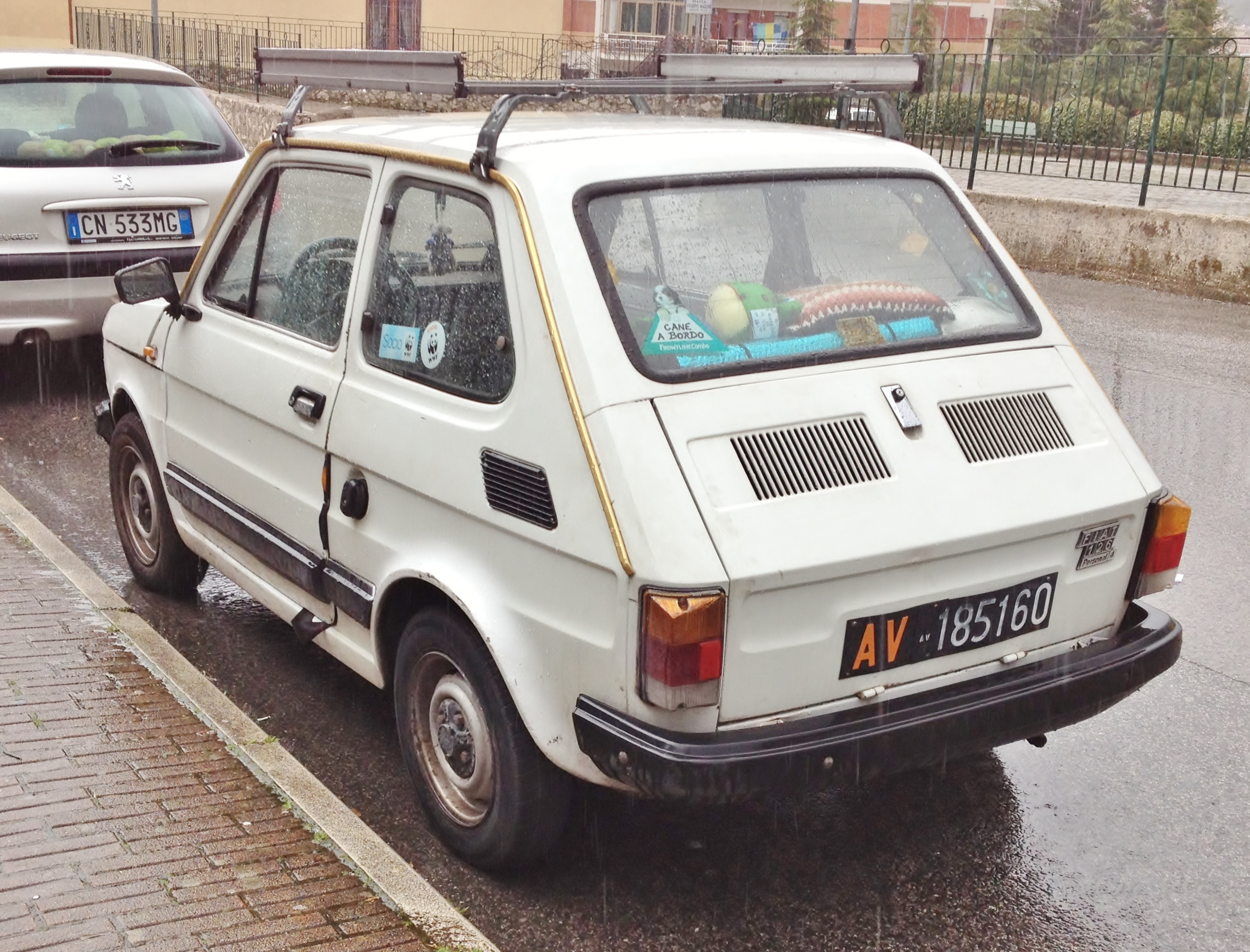 Fiat 126 Personal 4 rear